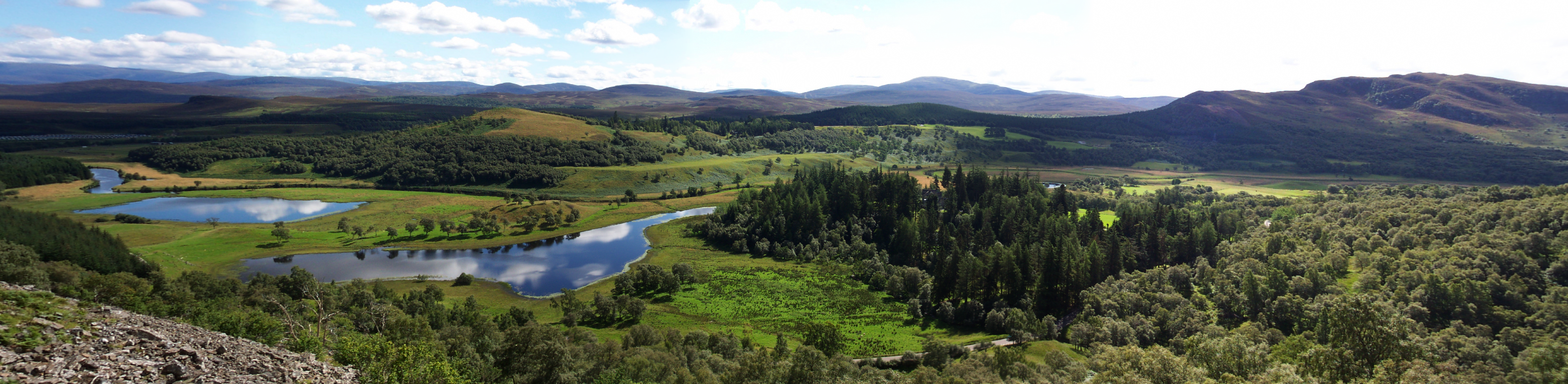 Looking out over the River Spey from the base of a crag on Creag Dhubh near Newtonmore, Scotland. The road visible to the right of the picture is the A86. The four constitutive images were taken in 2004 with a Kodak DX3900 Zoom camera and stitched together in REALVIZ Stitcher Express for Mac.